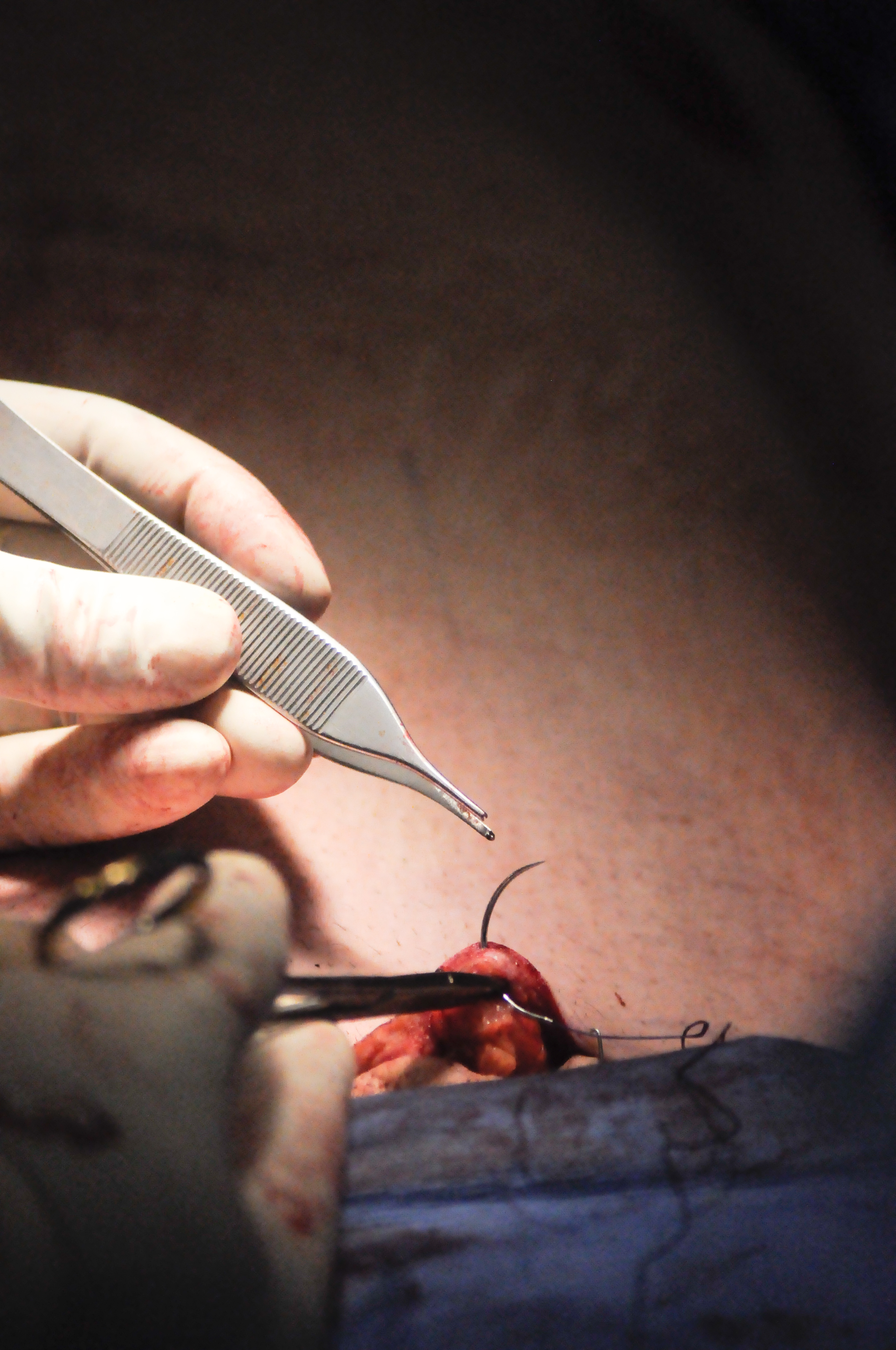 Plastic Surgeon Vishal Kapoor, MD performing abdominoplasty surgery. This photo shows Dr. Kapoor Suturing the incision after completing the tummy tuck..